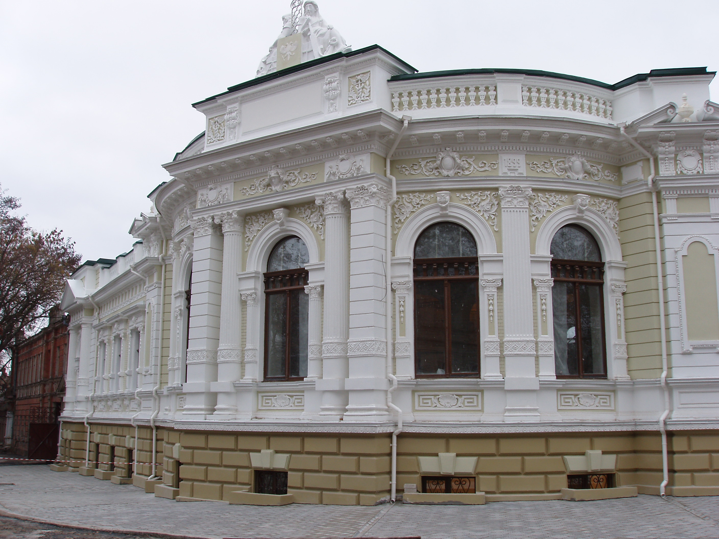 Kherson street